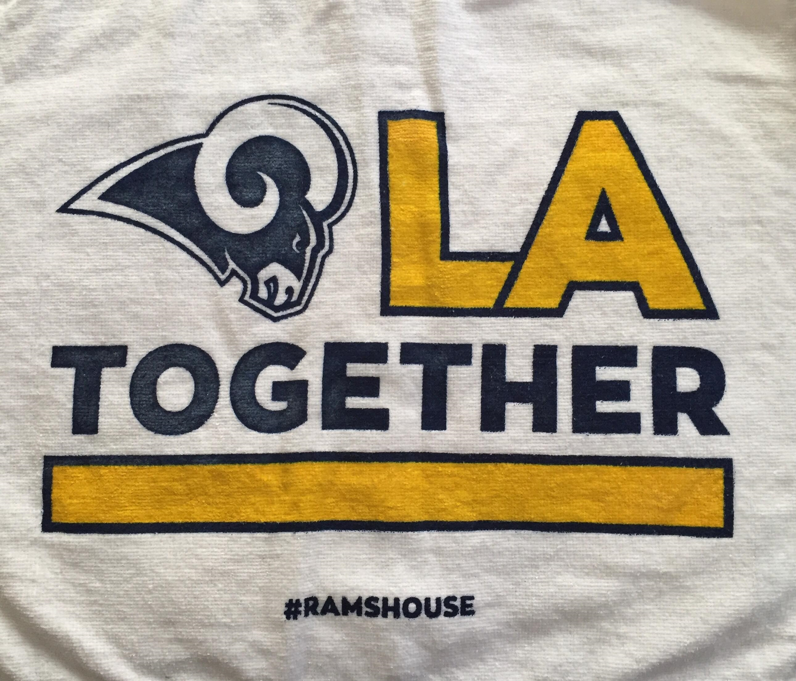 Towels touting the #LATogether message were given out to attendees of the Rams' Monday Night Football game.